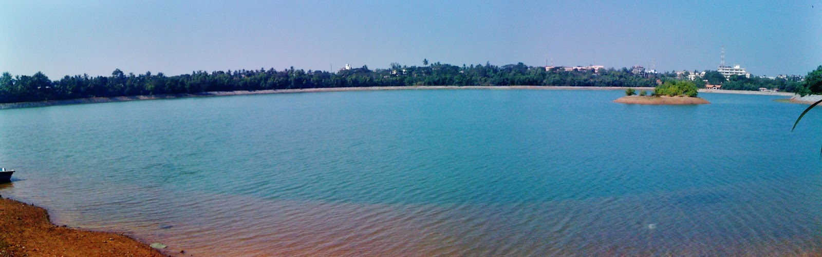 image of lake